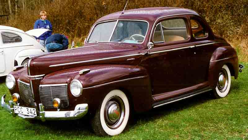 1941 Mercury Series 19A Sedan Coupé